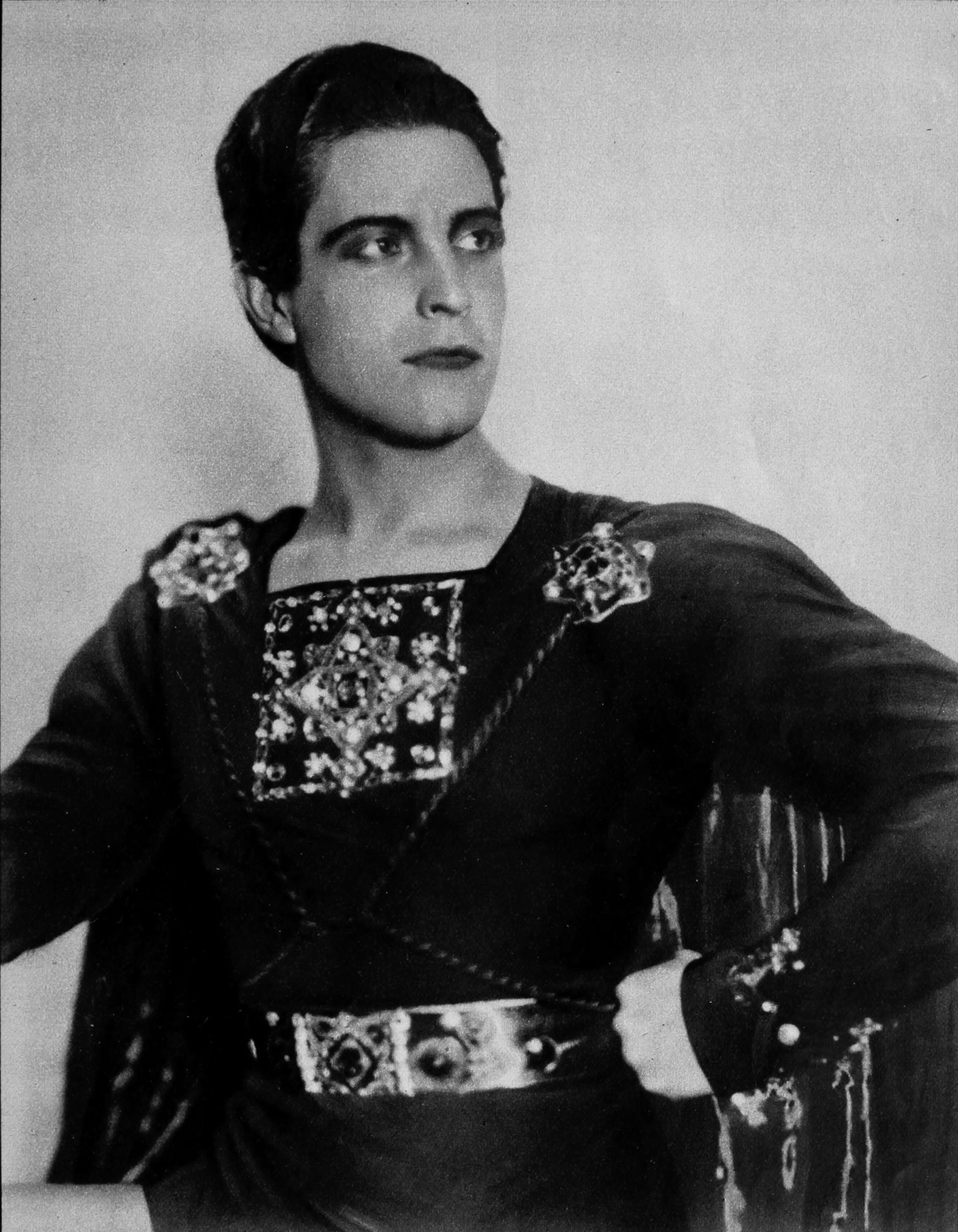 Ramon Novarro as Ben-Hur, from the American drama film Ben-Hur: A Tale of the Christ (1925), in Photoplay April 1925.